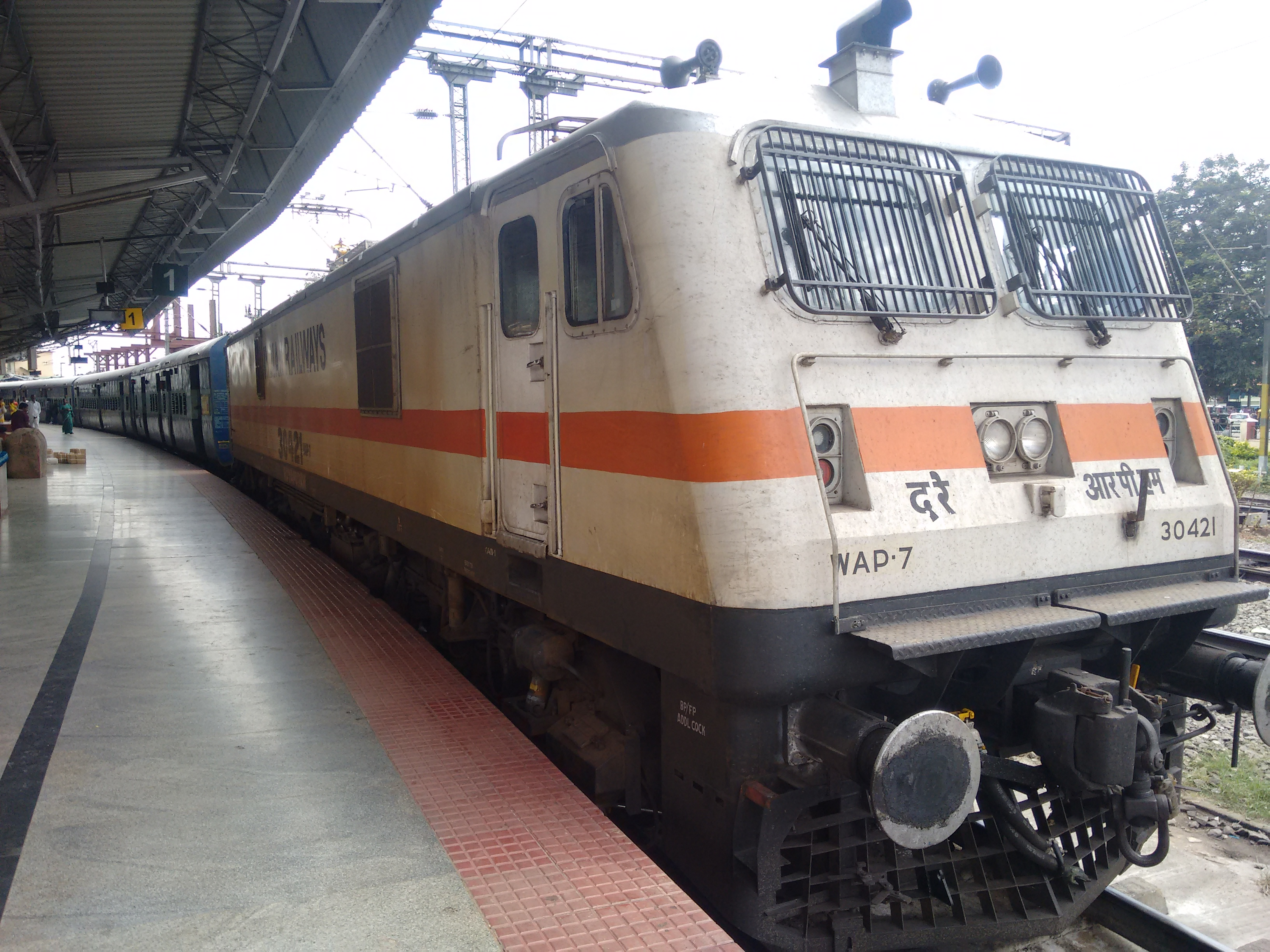 Vaigai Hauling by WAP7